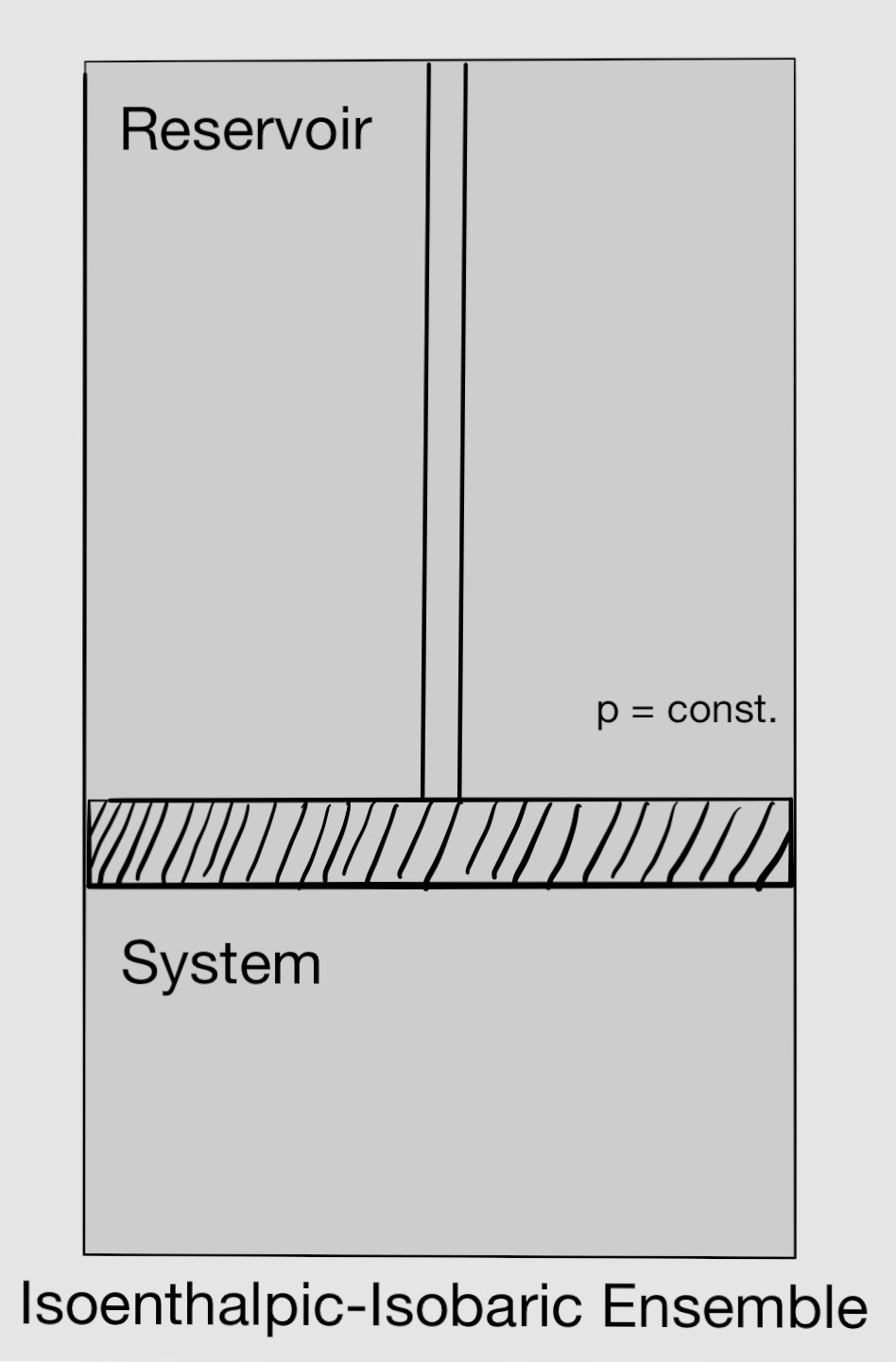 A minimalistic illustration of a basic isoenthalpic and isobaric system.